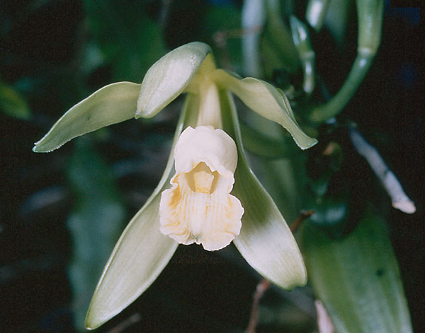 Vanilla planifolia (an orchid - source of vanilla) Downloaded from : Credits : Everglades National Park